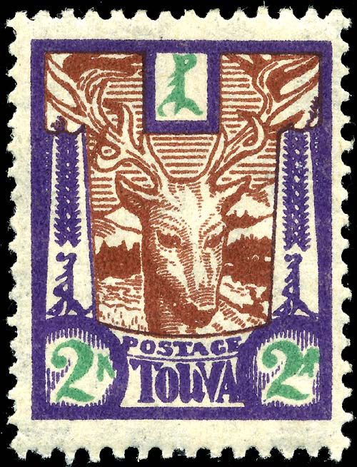 2-kopeck stamp of 1927 from Tuvinian People's Republic